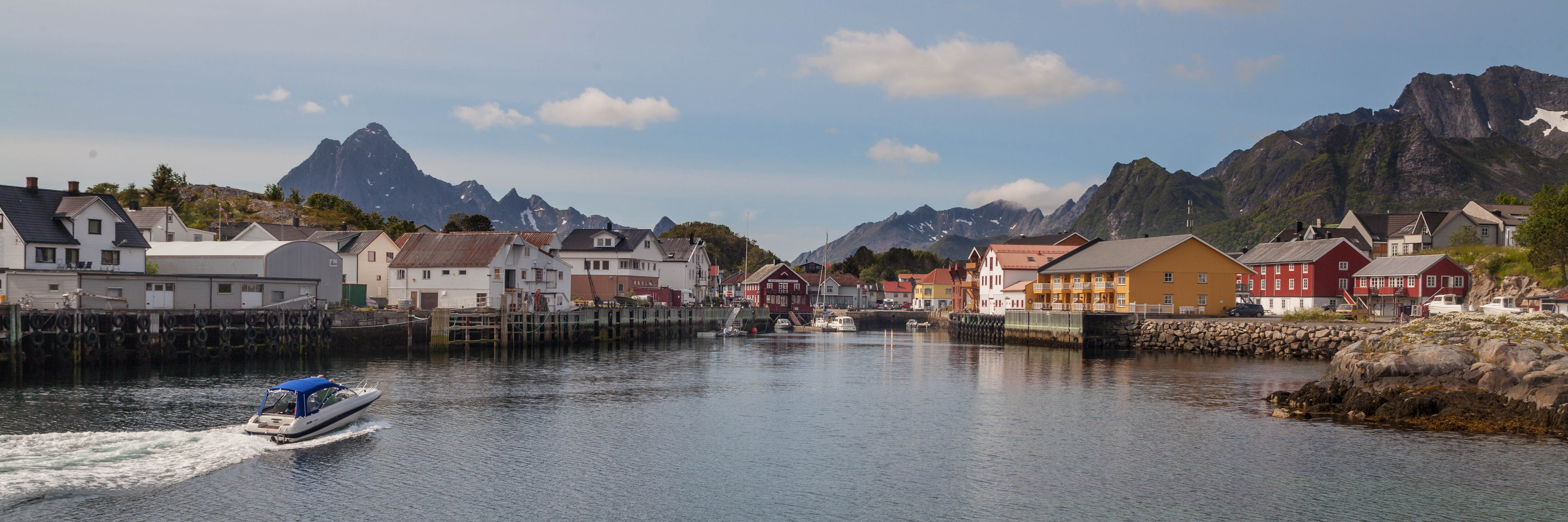 Kabelvåg from the seaside, panorama